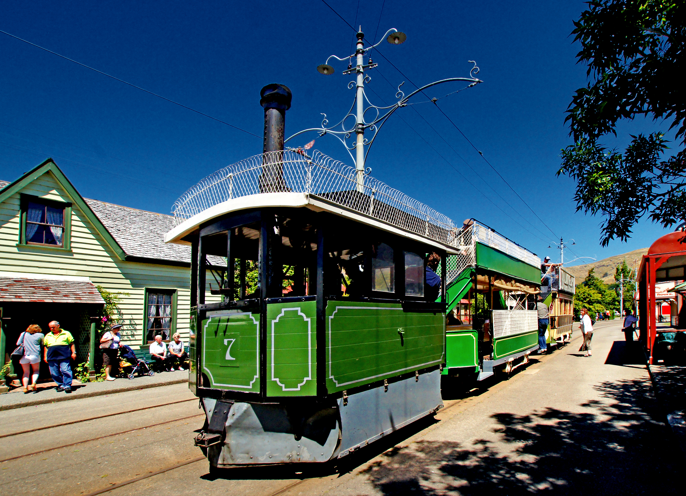 The Steam Tram is one of eight imported by the Canterbury Tramway Company in 1880/1 for use on that company's lines in Christchurch. Numbered 7 by the company, it was maker's number 28 and was built by Kitson & Company, Airedale Foundry, Leeds England, in 1881.